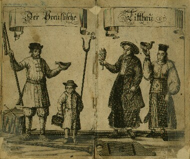 Illustartion from book: Prussian Lithuanian, or An Introduction to the Origin of Names, the Baptizing of Children, and Weddings... written by Theodor Lepner. Theodor Lepner Der Preusche Littauer, oder Vorstellung der Nahmens-Herleitung, Kind-Tauffen, Hochzeit… Danzig: bey J. Meinrich Ruedigern, 1744. 152 p., [1] illustr. l.